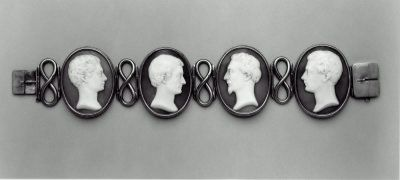 Bracelet composed of cameos of the four Hunt brothers – Richard Morris Hunt, William Morris Hunt, Leavitt Hunt and Jonathan Hunt – carved by artist William Morris Hunt and given to his sister Jane Hunt of Newport, Rhode Island. From the collection of the Museum of Fine Arts, Boston. Bequest of Miss Jane Hunt, 1908.